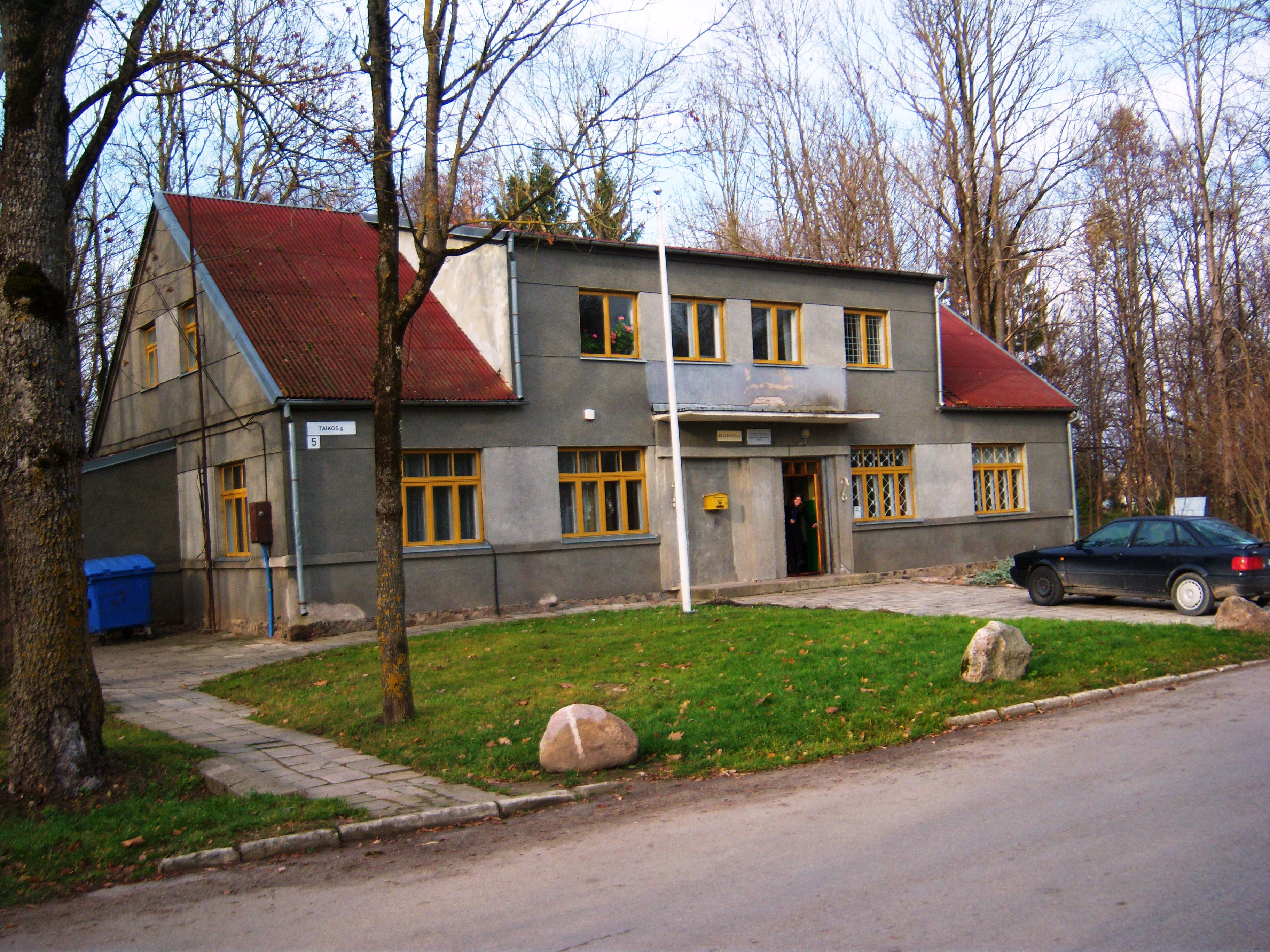 Perekšliai, community house, Panevėžys District, Lithuania